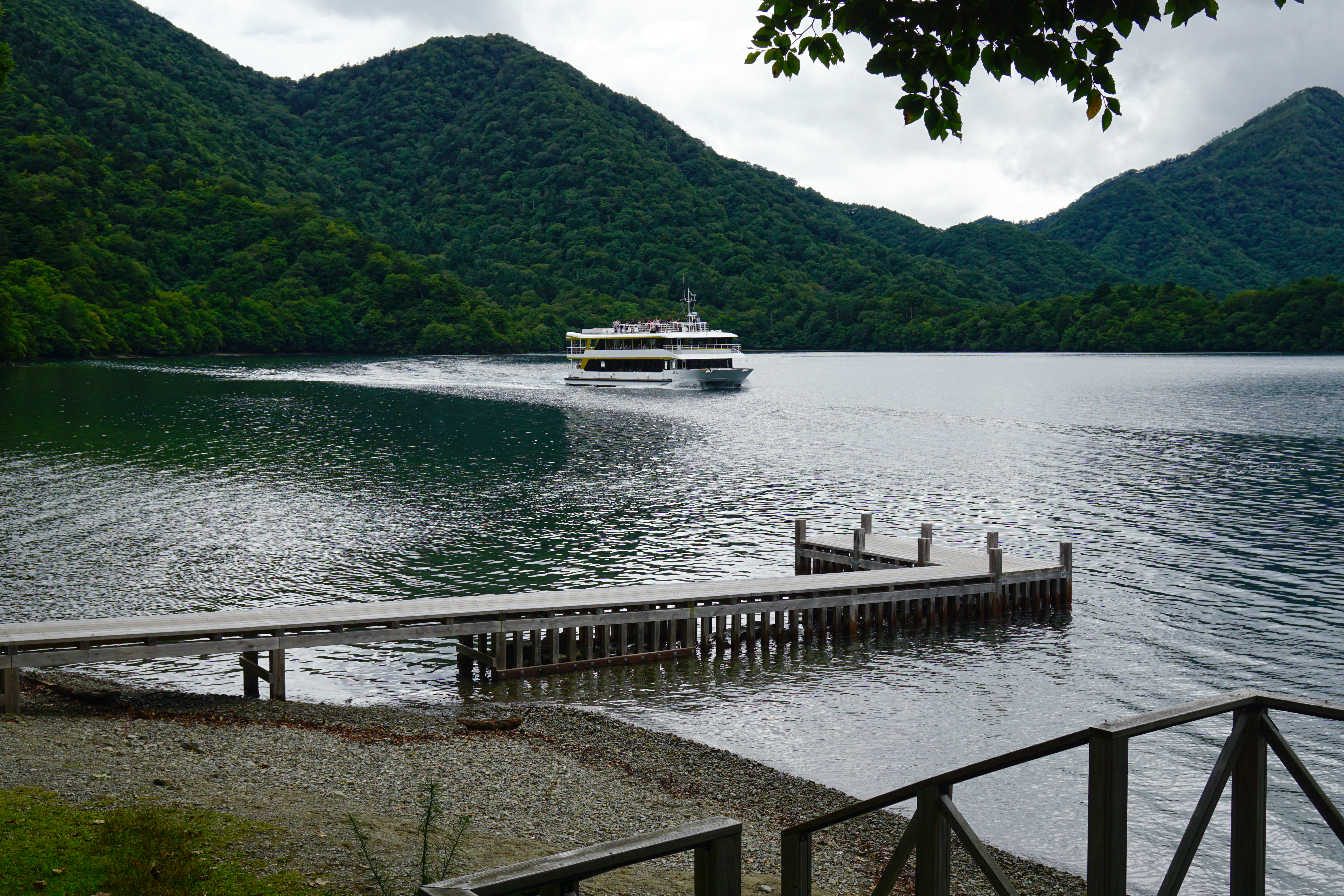 Italian_Embassy_Villa_Memorial_Park in Nikko, Tochigi prefecture, Japan